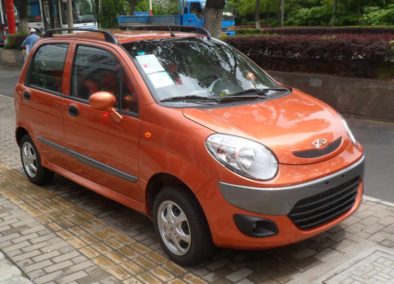 Chery QQ3 Sport photographed in Shanghai, China.